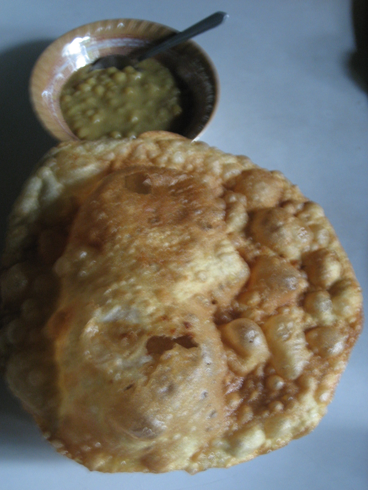 Fried chapati with pèbyouk (mushy boiled peas), a popular Mandalay breakfast.